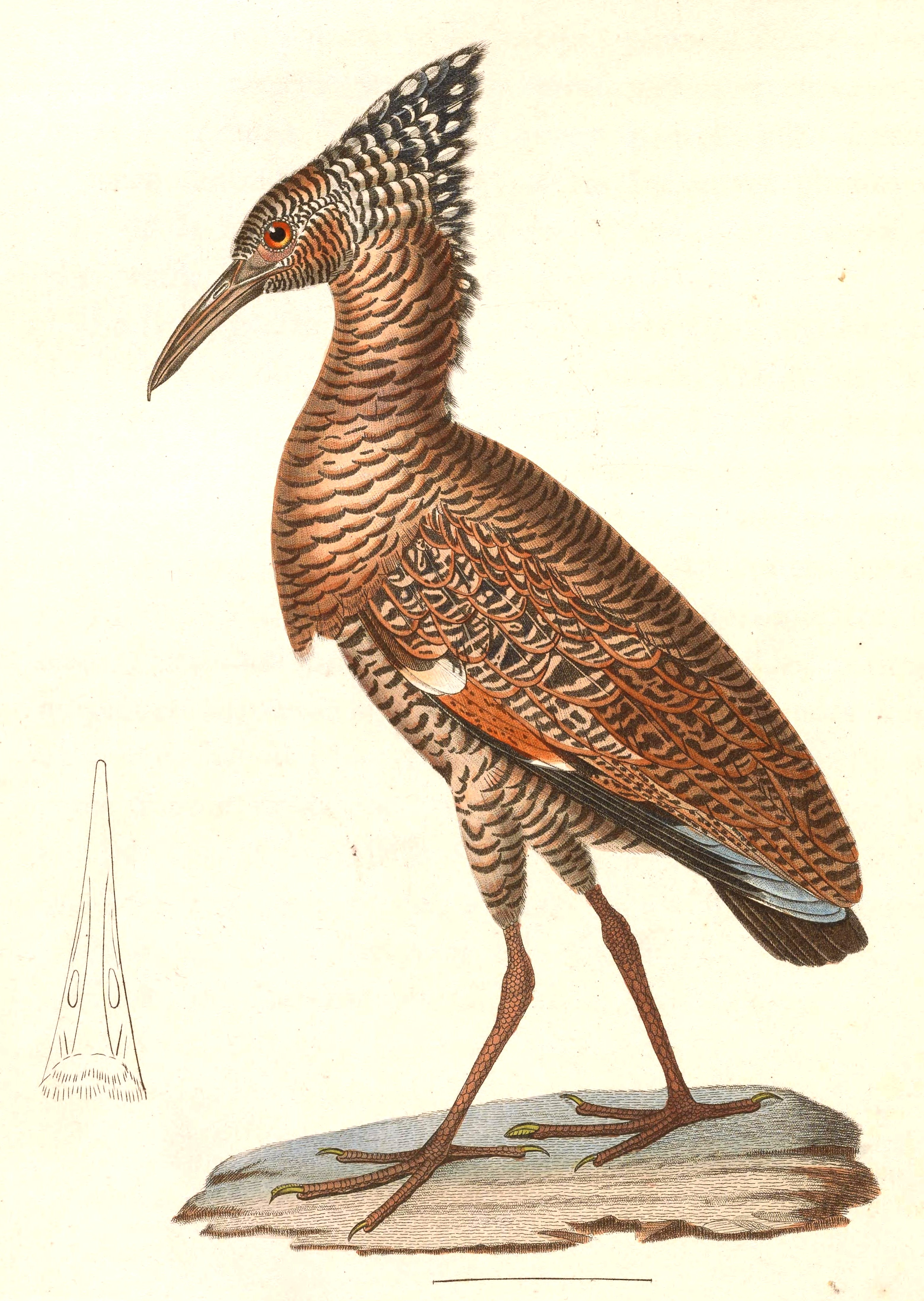 « Nycticorax limnophilax » = Gorsachius melanolophus (Malayan Night Heron) - adult